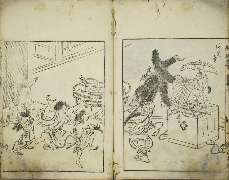 English Toujin Ameuri by Itchō Hanabusa. Painted by Rinshō Suzuki